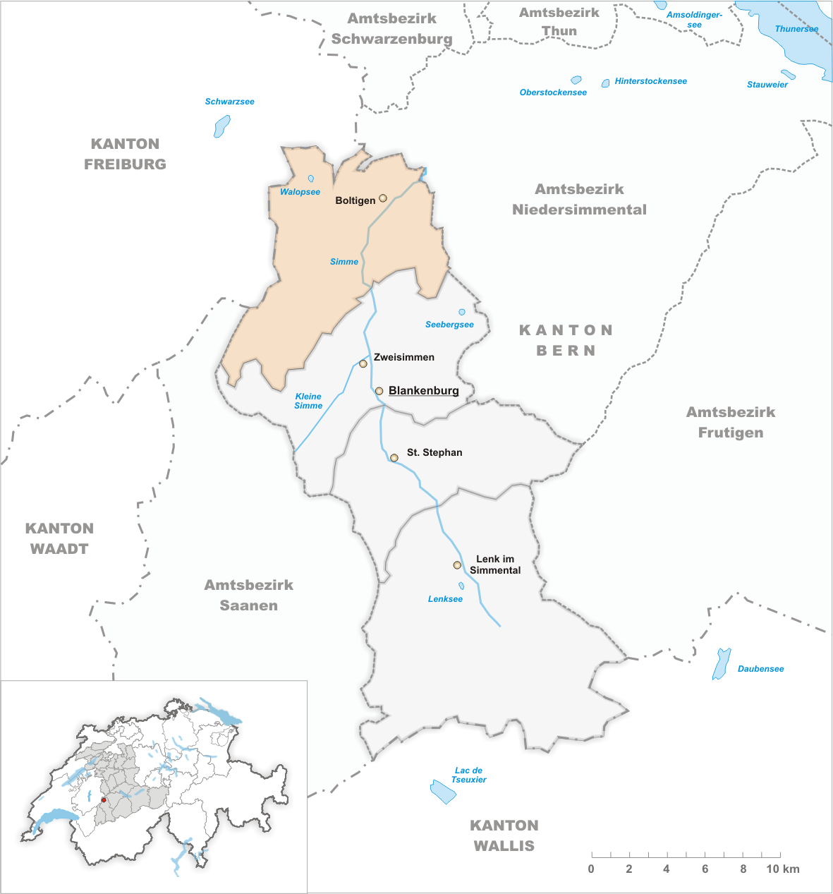 Municipality Boltigen